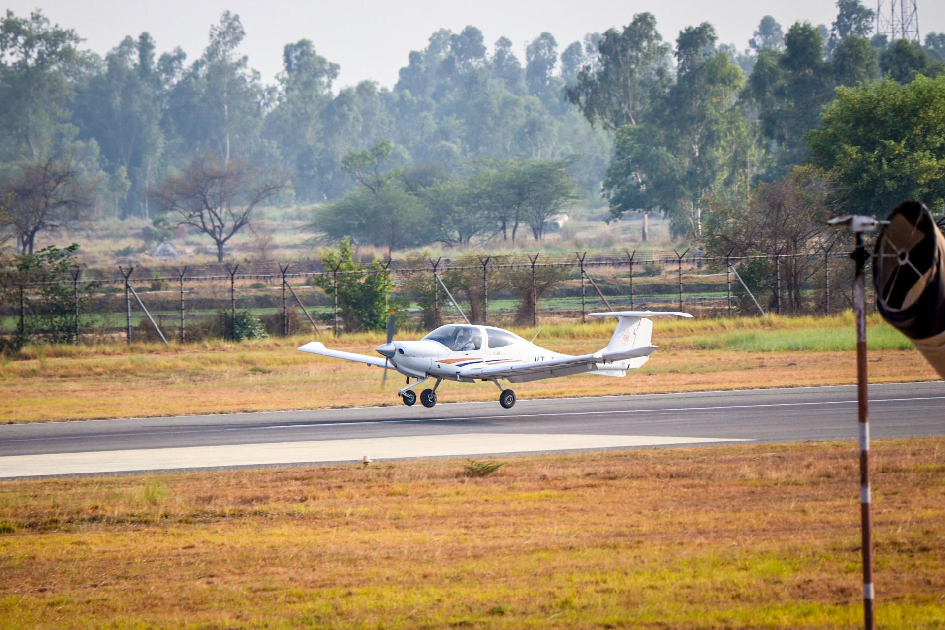 One of the DA-40s that IGRUA operates , coming in for landing.